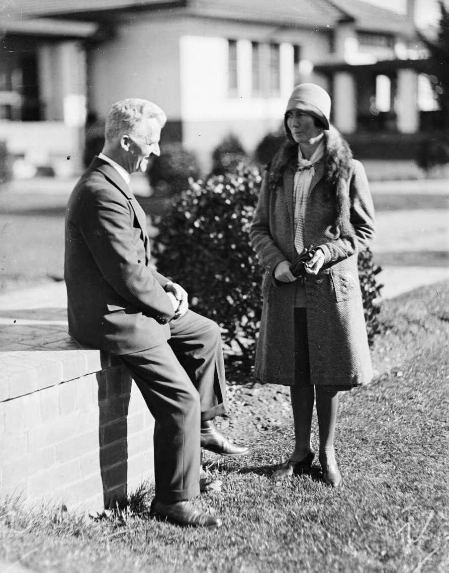 Sarah and James Scullin